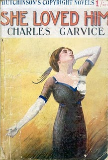 Cover of She Loved Him (1895) by Charles Garvice (1850-1920)